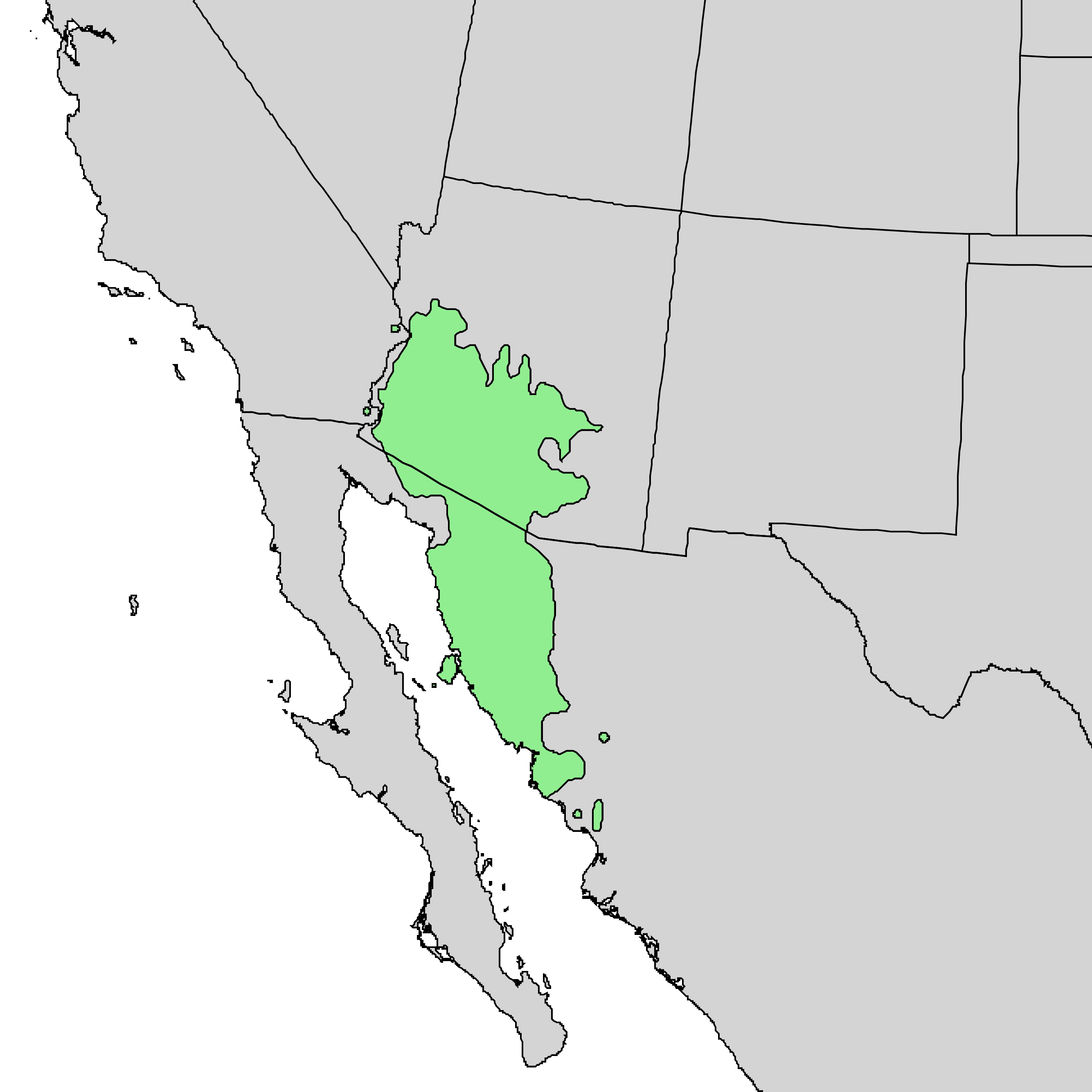 Natural distribution map for Carnegiea gigantea